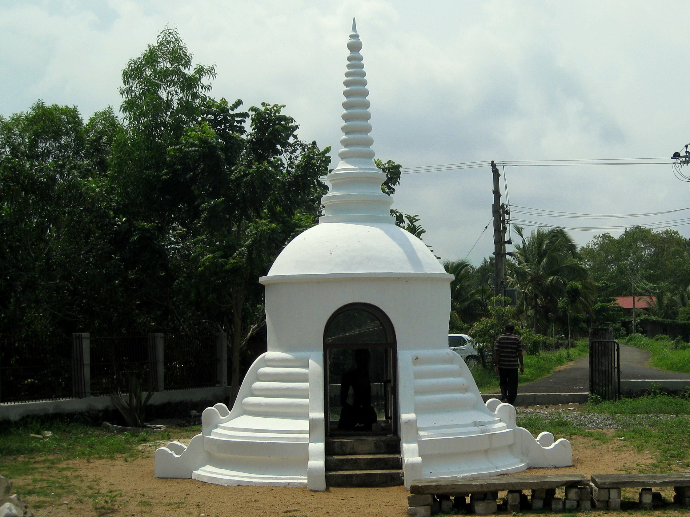 Buddha image